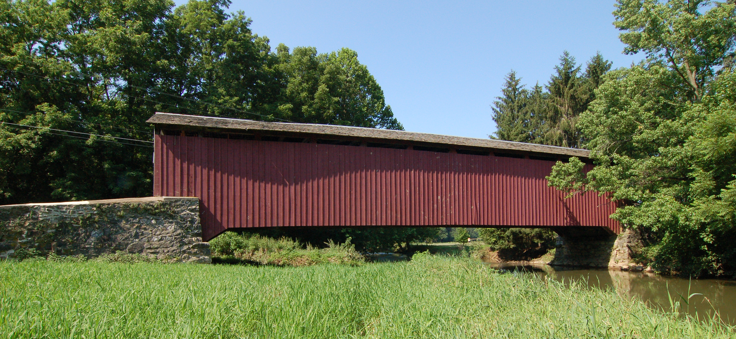 A photograph of the Forry's Mill Covered Bridge showing the side of the bridge. The bridge is located in Lancaster County, Pennsylvania.